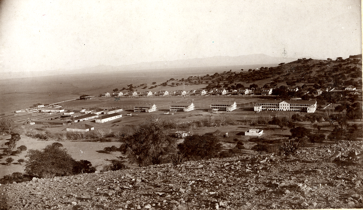 Picture taken of Fort Huachuca in 1894 from Star Hill by the U.S. Army. The Mule Mountains can be seen in the background.